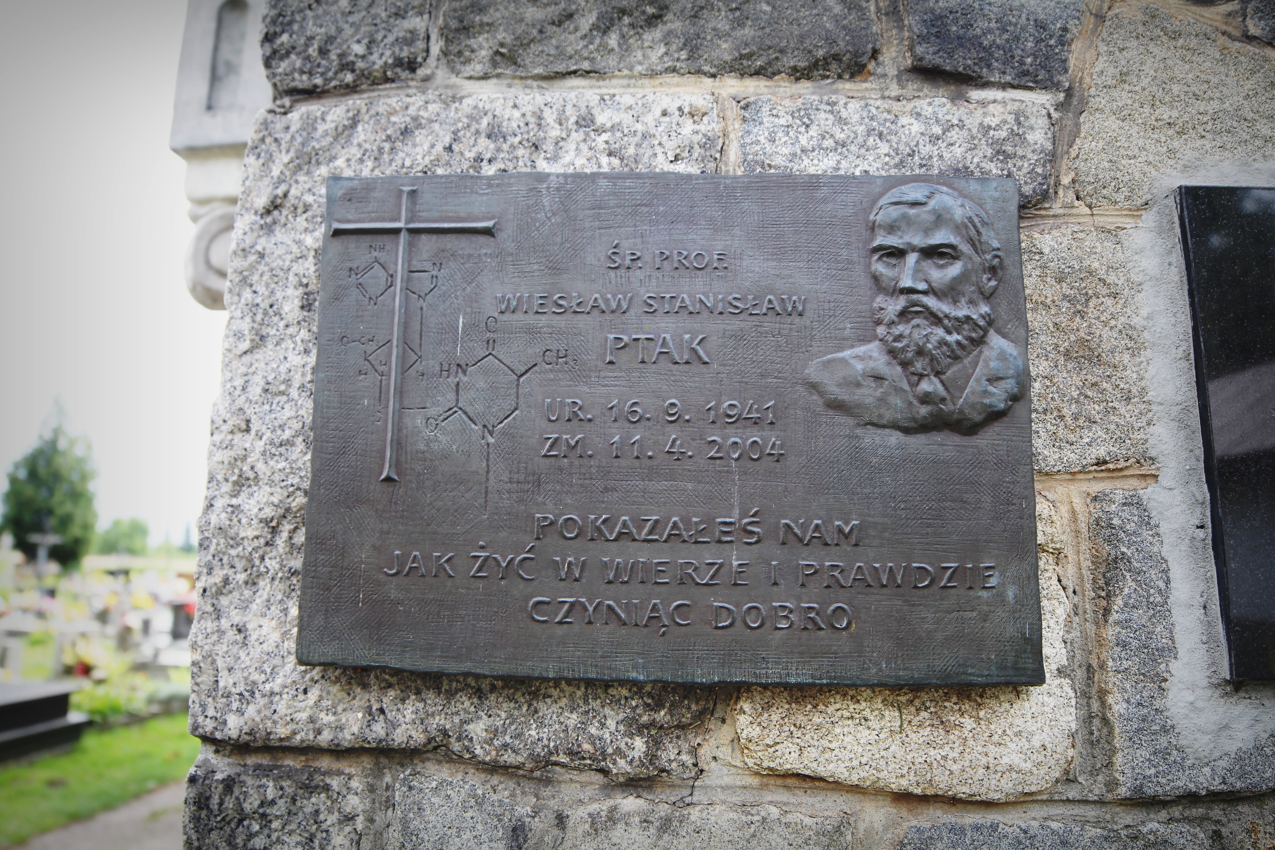 Plaque commemorating chemist Wiesław Ptak on the family gravestone in Raciborowice, near Kraków, Poland.